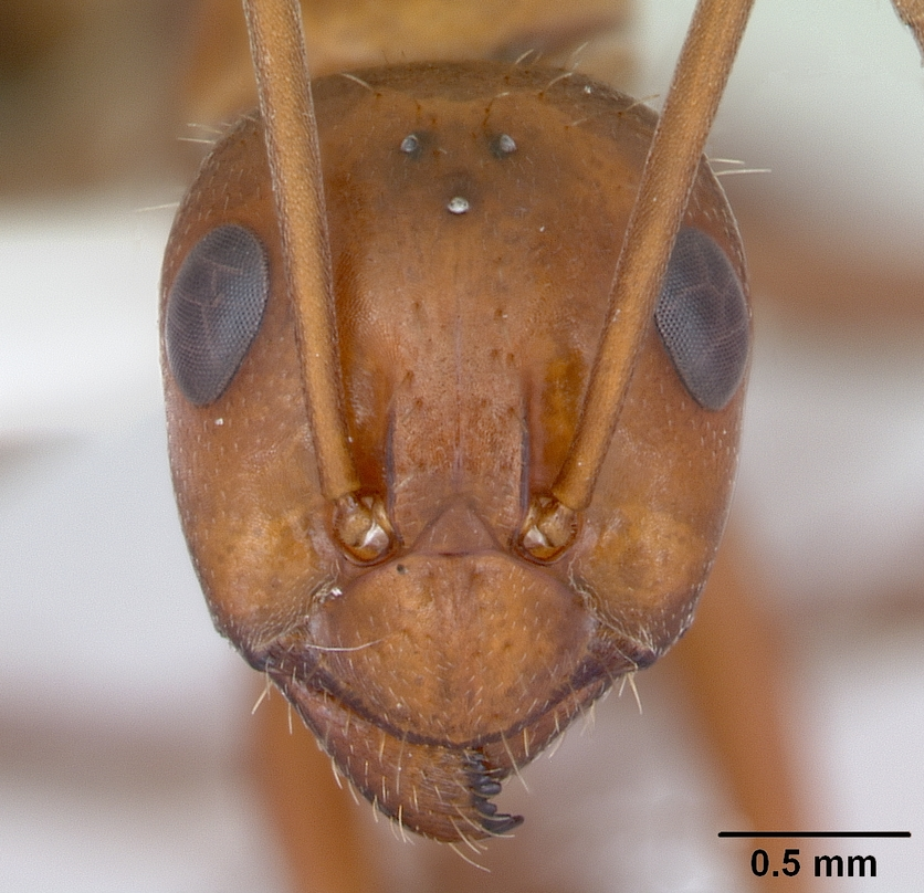 Head view of ant Formica incerta specimen casent0172884.